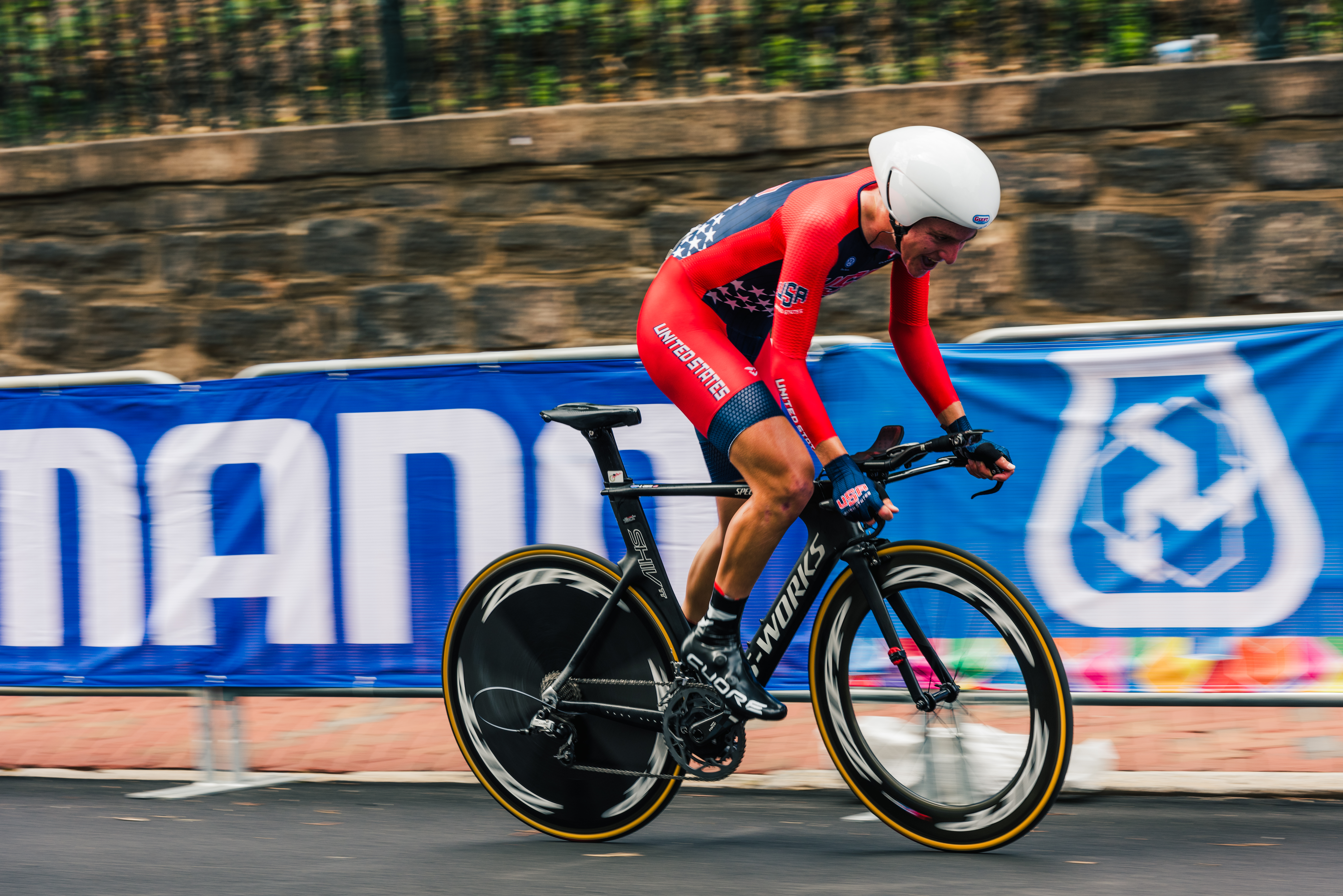 UCI Bike Race 2015 Richmond, VA 2015 UCI Road World Championships – Men's under-23 time tria in Richmond, USA